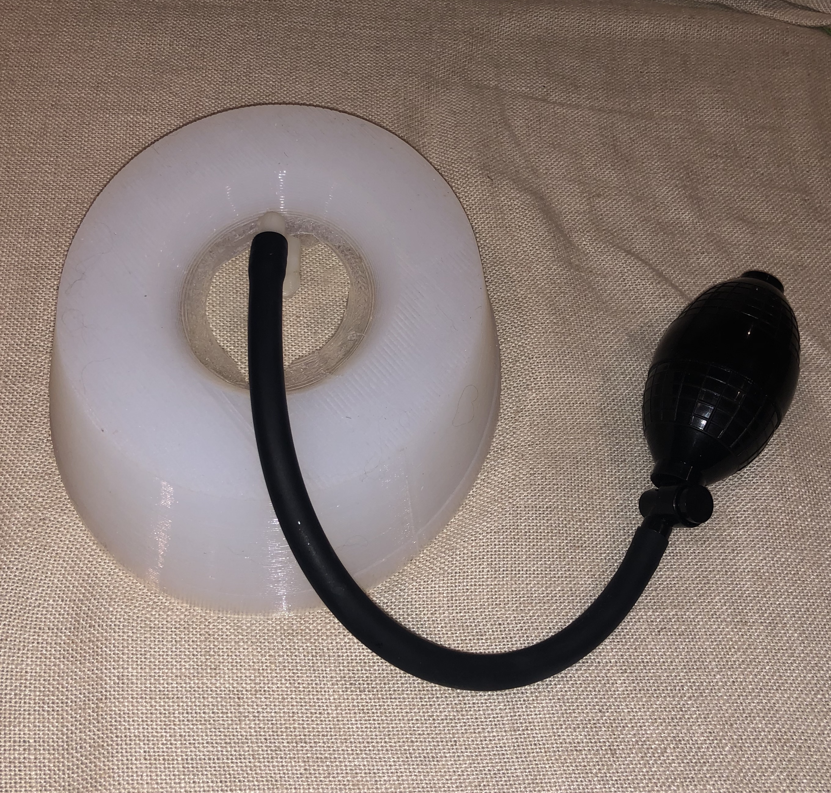 A vacuum bell for correcting Pectus Excavatum